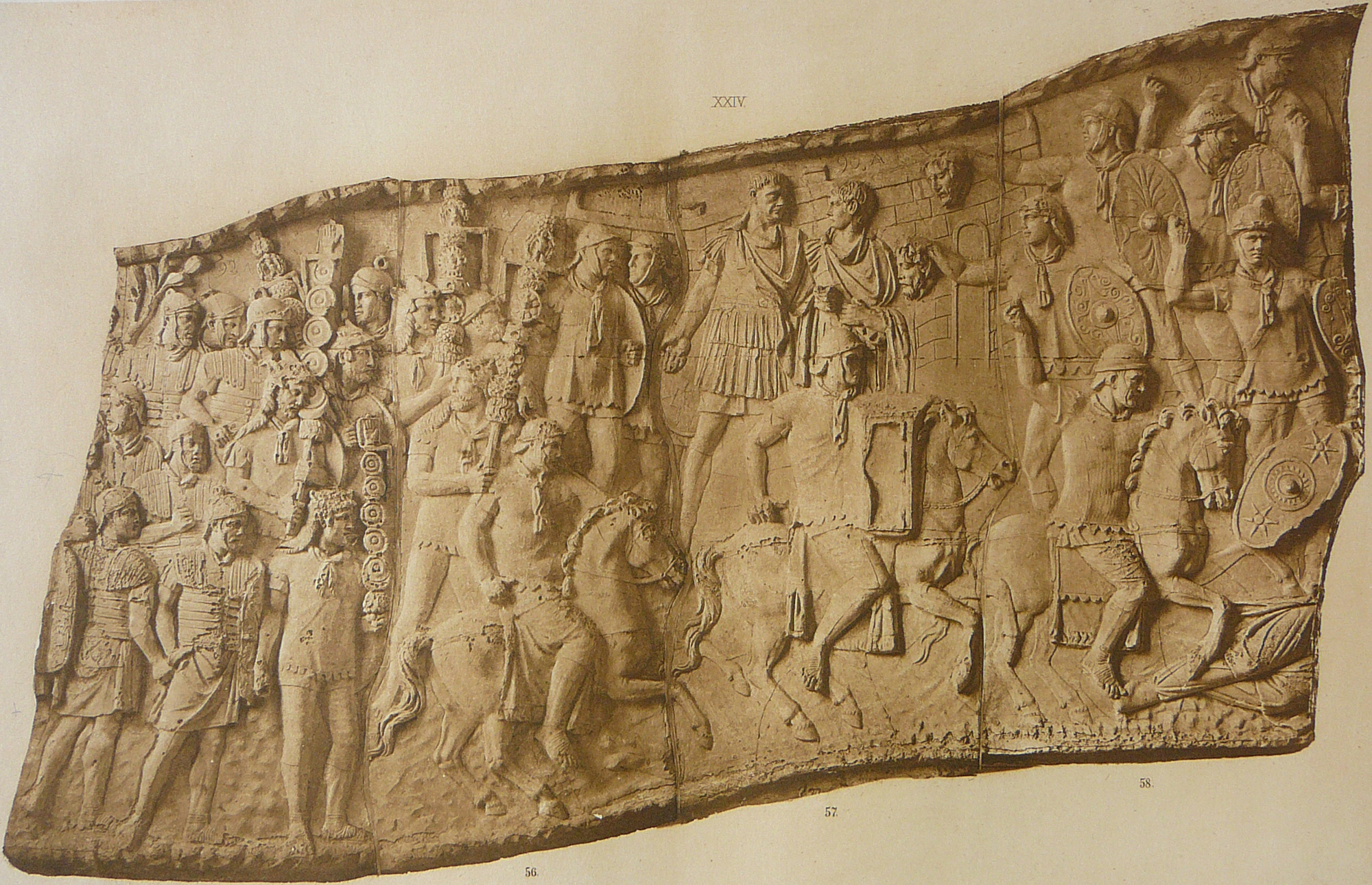 The first battle (scene XXIV)